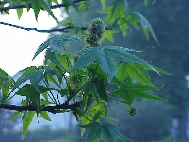 Species: Liquidambar styraciflua Family: ' Image No. 6